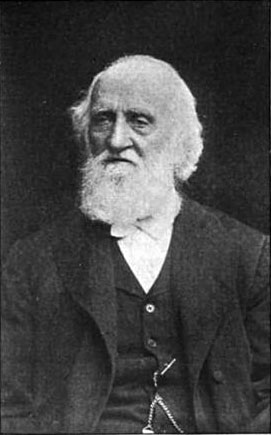 Photo of Caleb Cook Baldwin